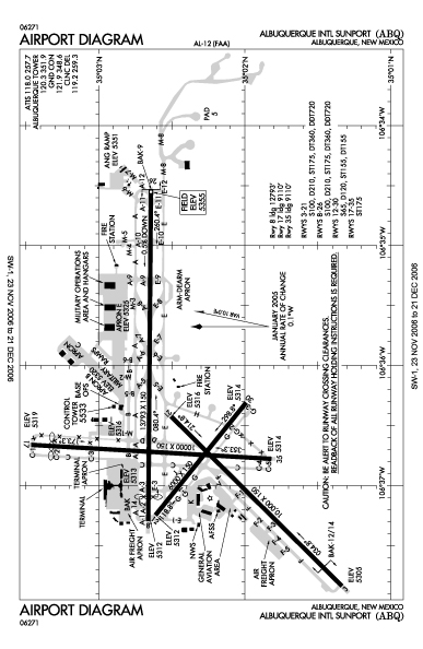 FAA airport diagram for Albuquerque International Sunport (ABQ) in Albuquerque, New Mexico, United States.